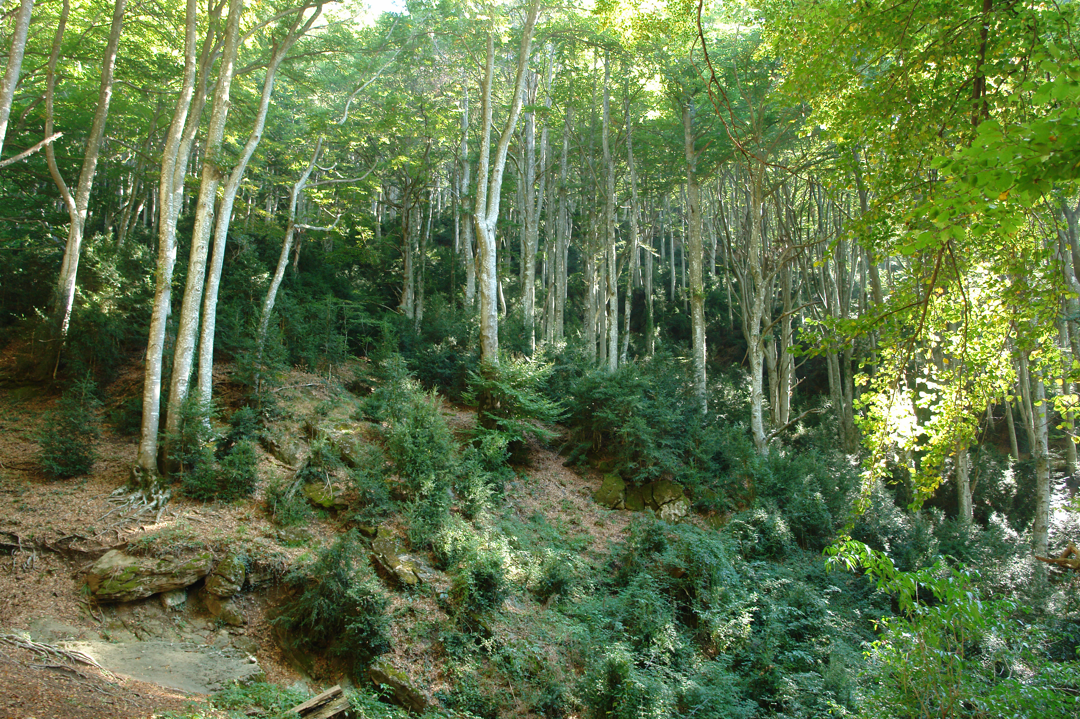 This is a a photo of a protected or outstanding tree in Catalonia, Spain, with id: MA-24.233.01